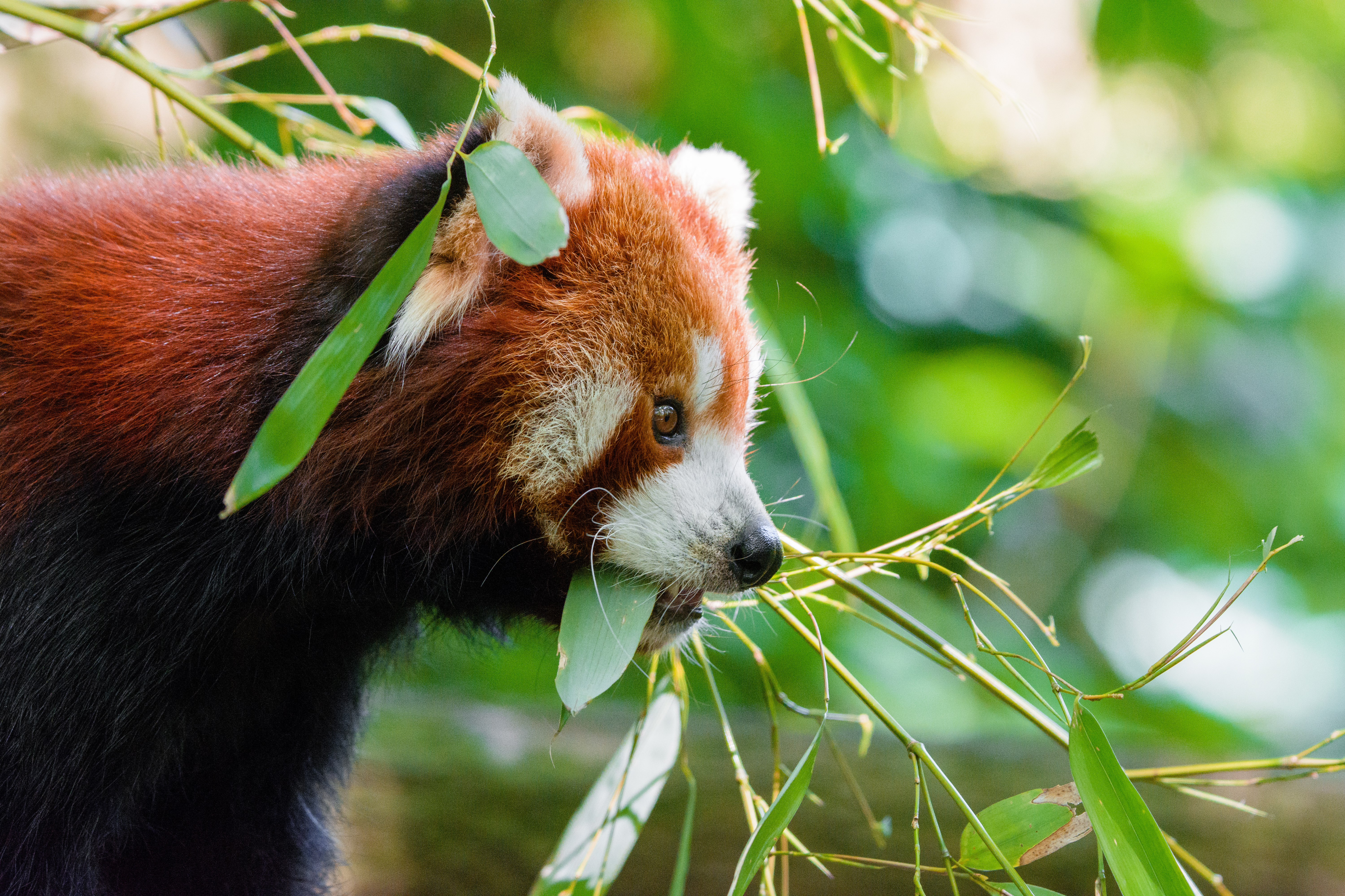 Red Panda